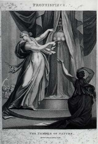 The frontispiece from Erasmus Darwin's The Temple of Nature (1803). The veil of nature is pulled away